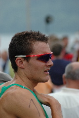 Jan Frodeno at the German Championship in 2006 in Schliersee.